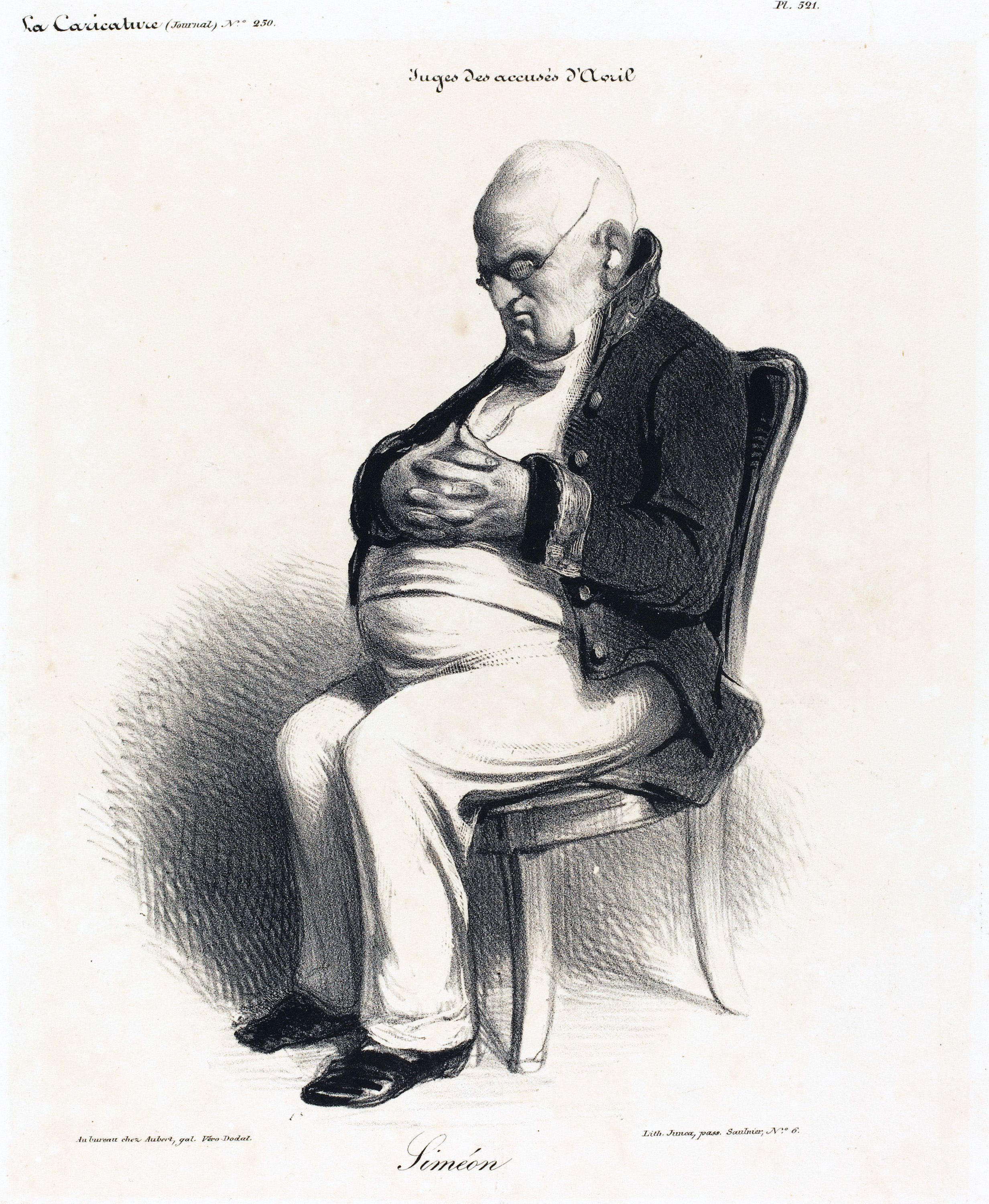 Caricature of Joseph Jérôme Siméon published in La Caricature. National Gallery of Art, Rosenwald Collection, 1943.3.2959